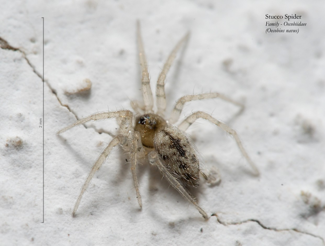 Stucco spider (Oecobius navus). Details: 8D + Nikkor 50mm 1.8D (reversed) Shutter Speed: 1/60 sec Aperture: f/40 ISO Rating: 100 Flash used: Yes